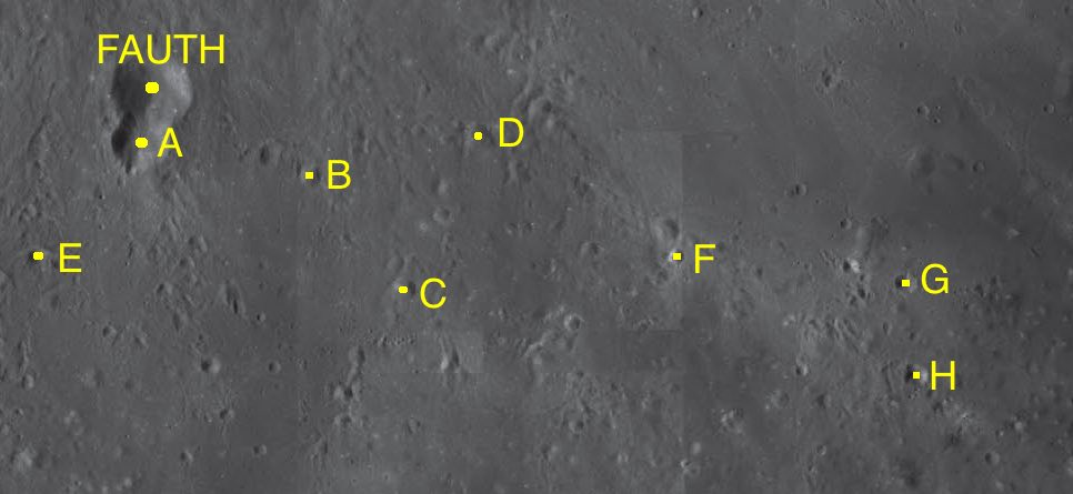 Part of the chart LAC-58 used for the presentation